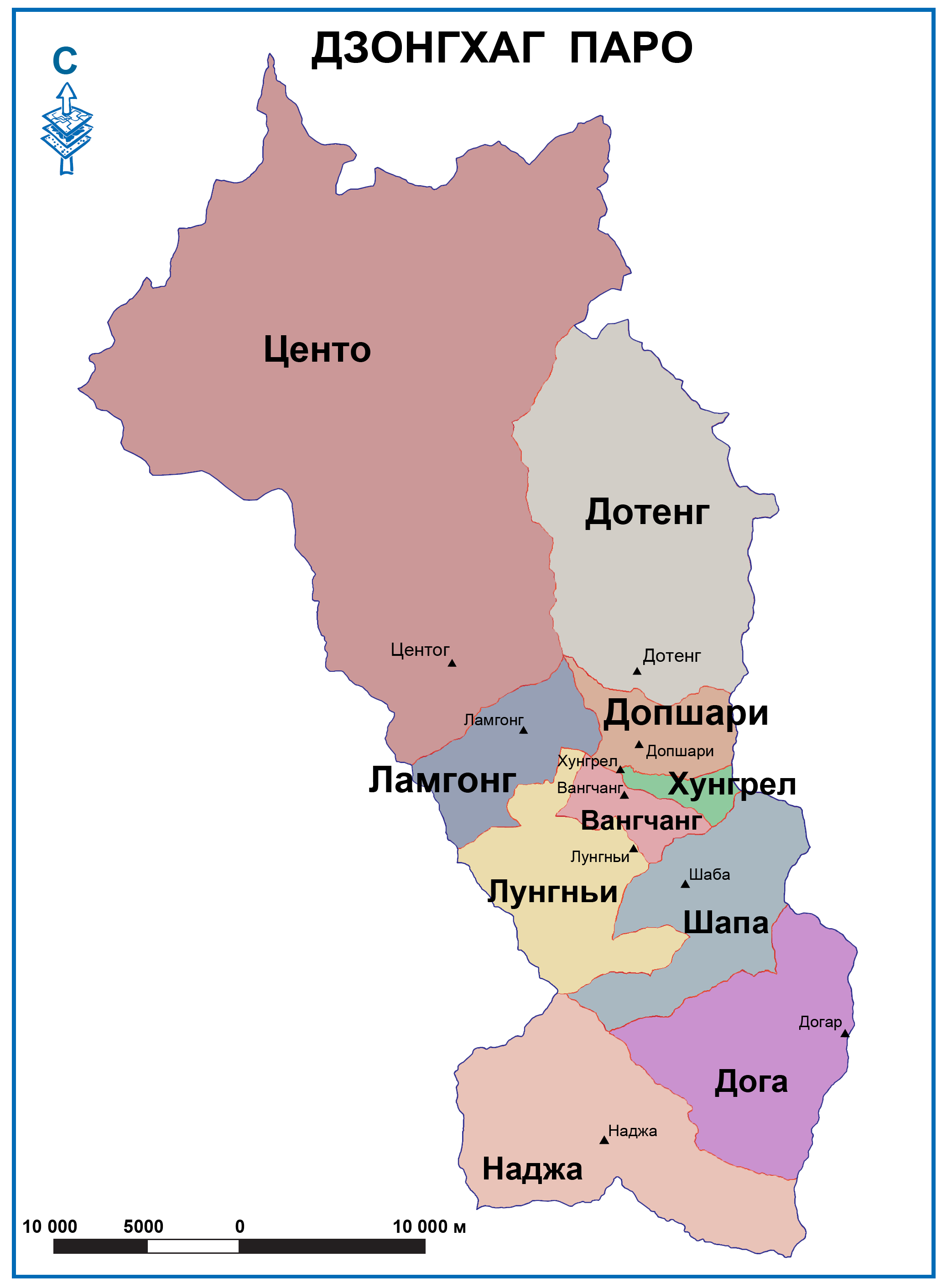 Paro District map, Bhutan, 2011